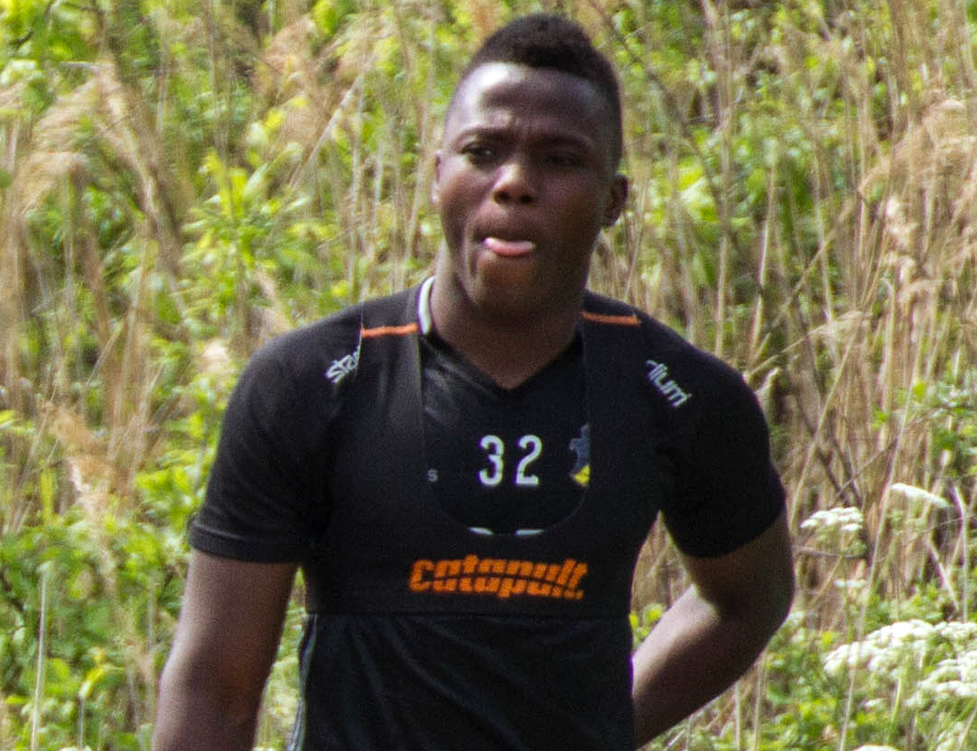 Patrick Kpozo, AIK player, in May 2016.